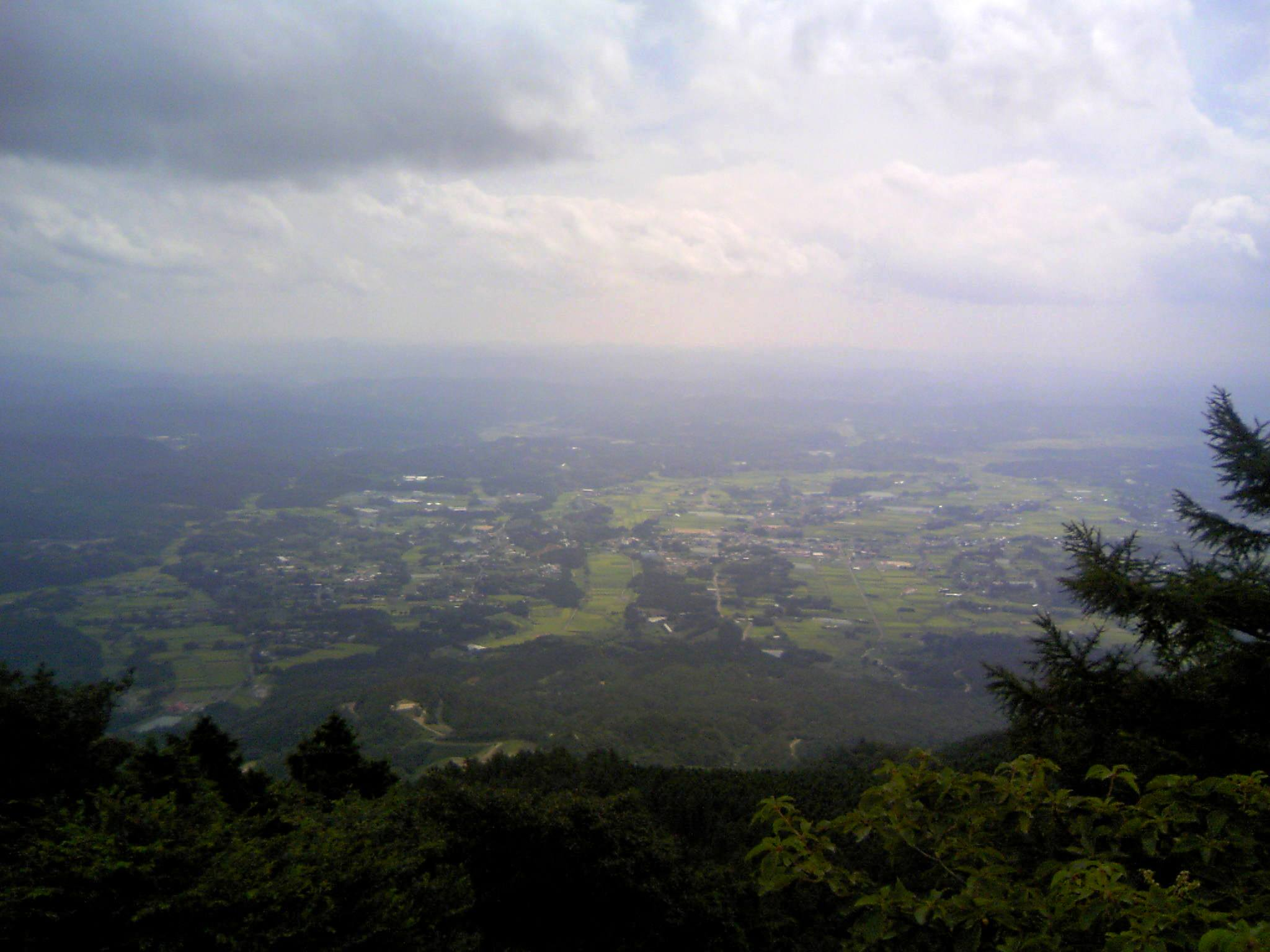 Nihonbara Plain, Okayama, Japan.